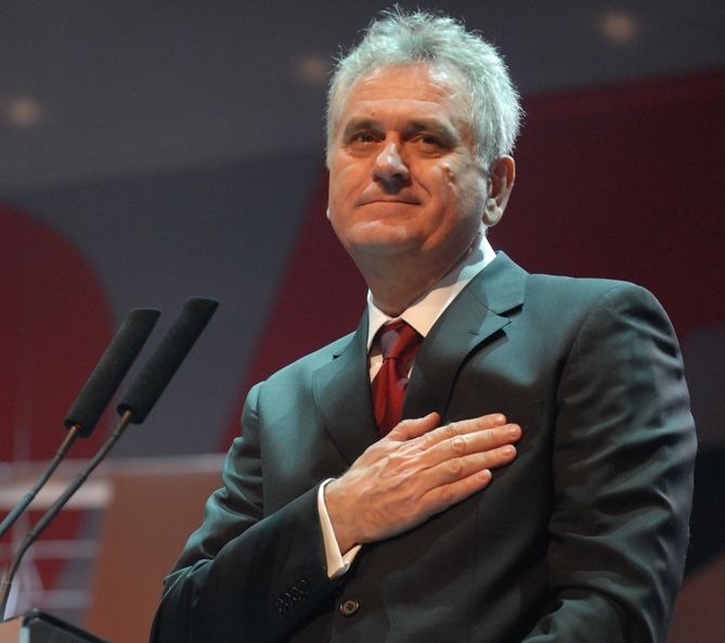 Cropped photo of Tomislav Nikolić. Author allows use of the cropped version provided that the author is attributed. (Author was contacted for use in a personal message.)